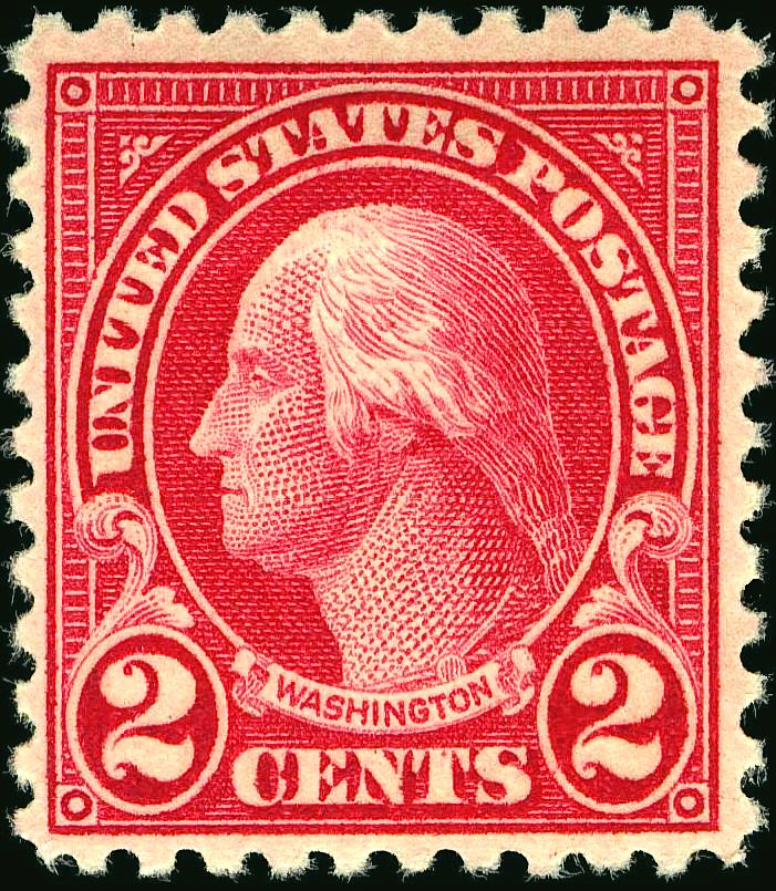 US Postage stamp, George Washington, regular issue of 1922, 2c, red